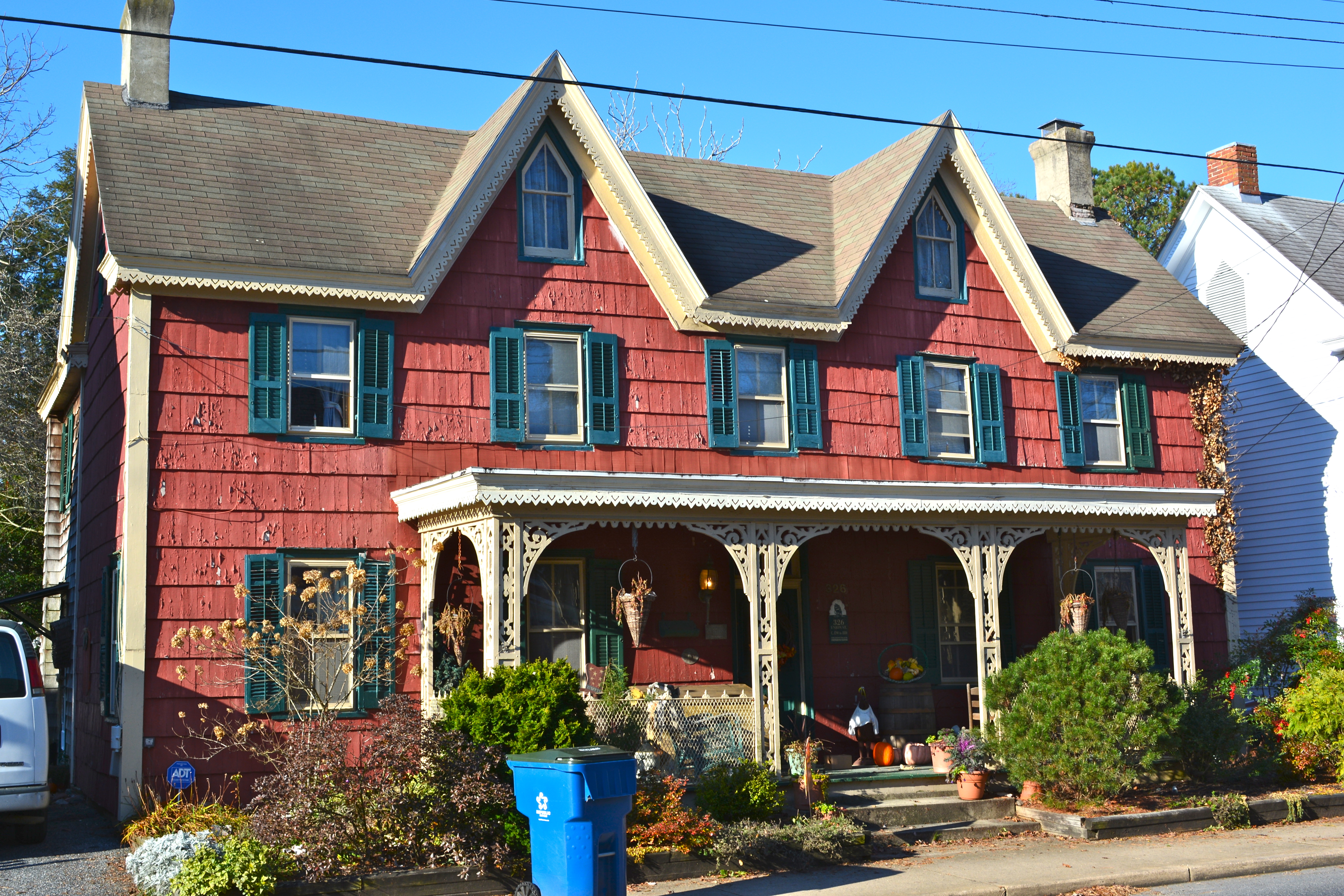 House in the Milton Historic District in Milton, Sussex County, Delaware. Added to NRHP on June 25, 1982. The HD includes most of Union and Federal Streets in town (both are Delaware Highway 5) and adjoining streets.